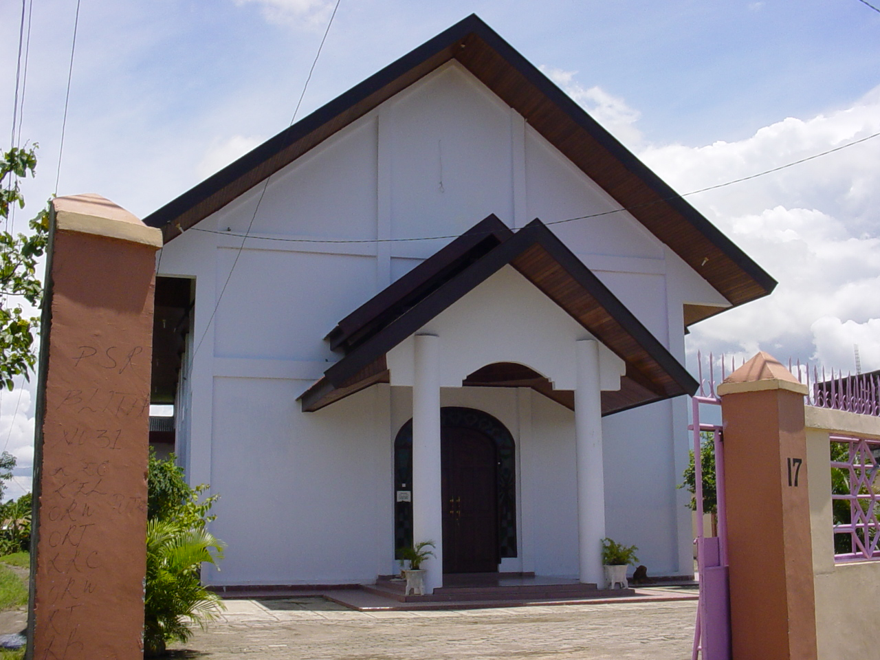 Toraja Church